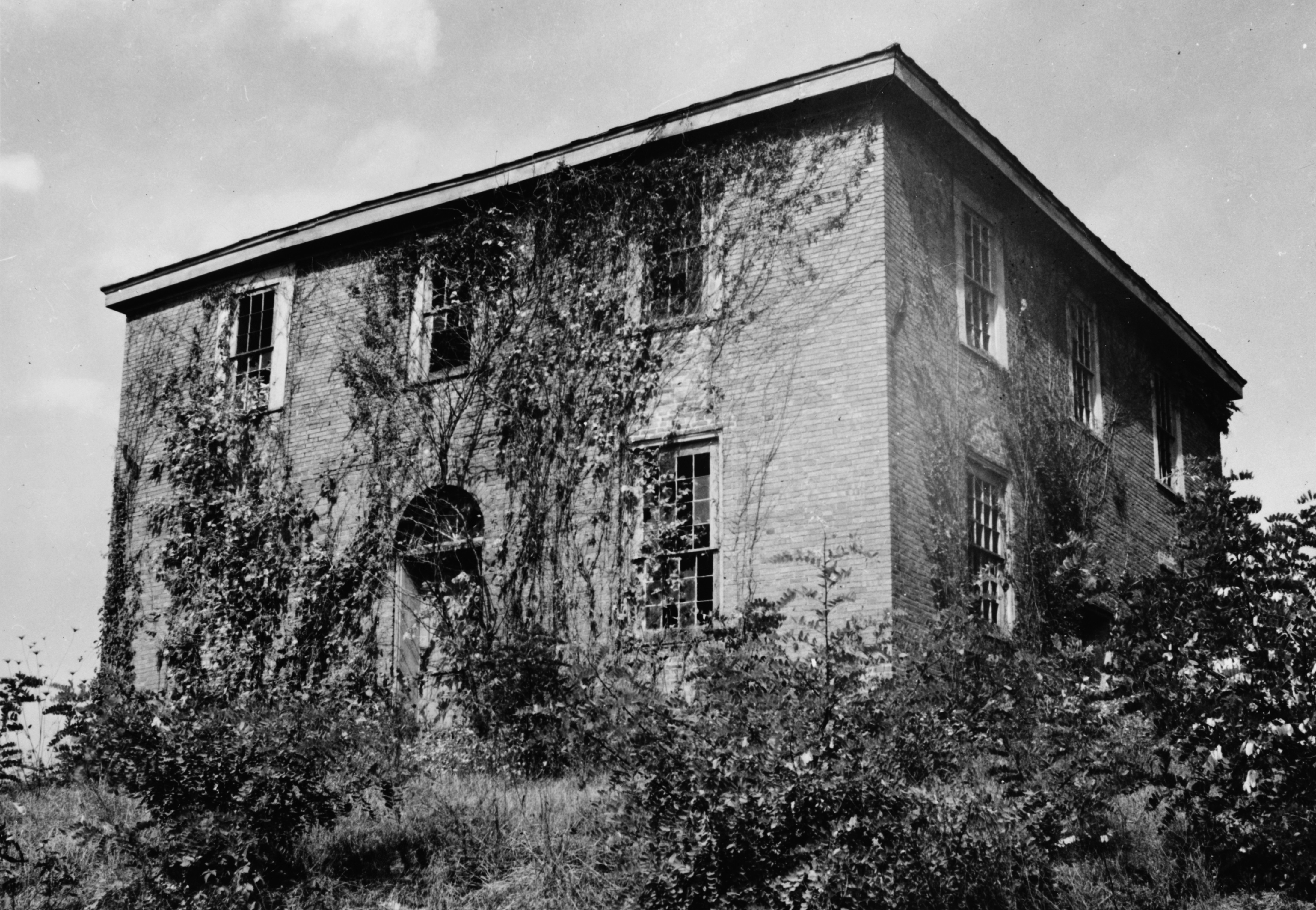 Southern side of the Old Meigs County Courthouse, located along State Route 248 near Chester in Meigs County, Ohio, United States. Built in 1823, the courthouse is listed on the National Register of Historic Places along with the adjacent former Chester Academy.